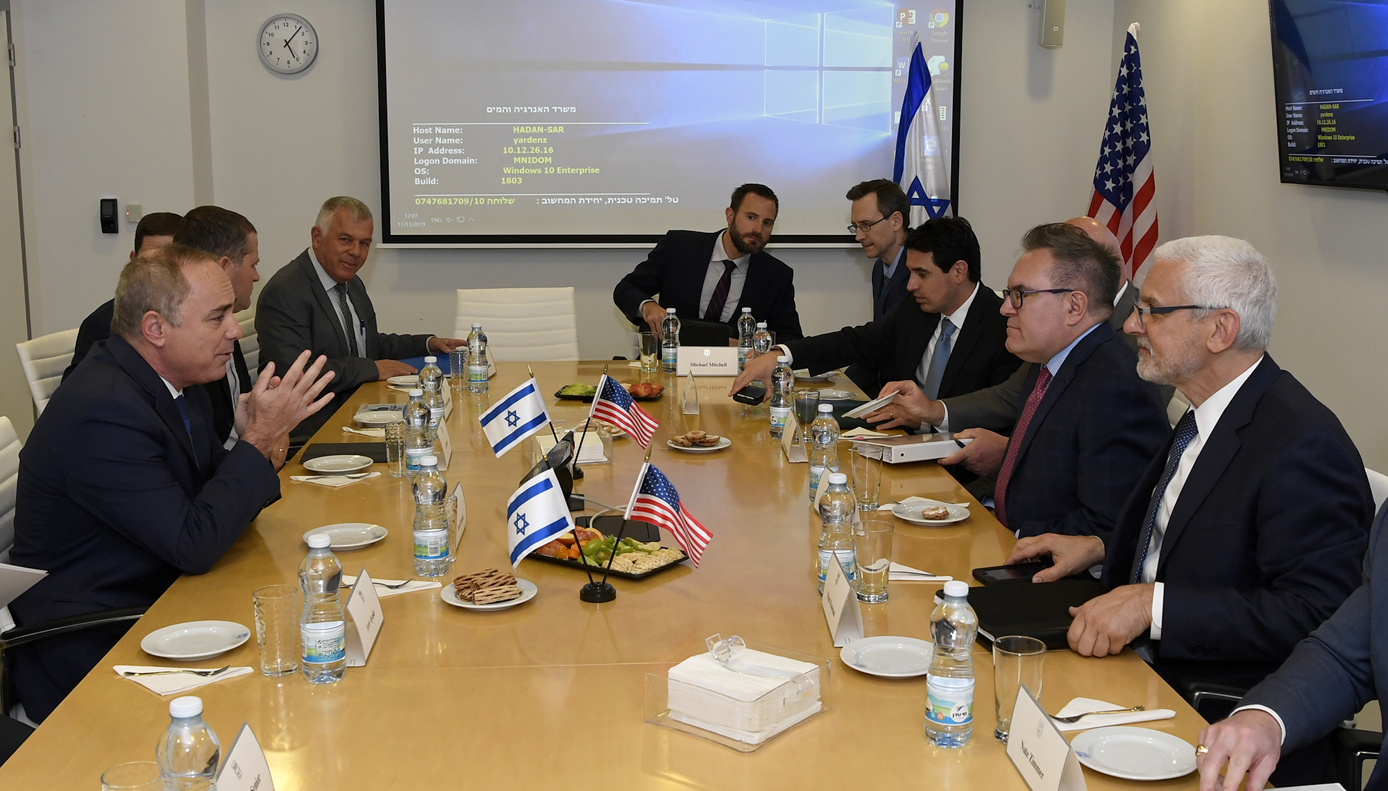 EPA ADMINISTRATOR WHEELER Visit to Israel Nov. 17-19, 2019 meeting with Dr. Yuval Steinitz, Minister of Energy